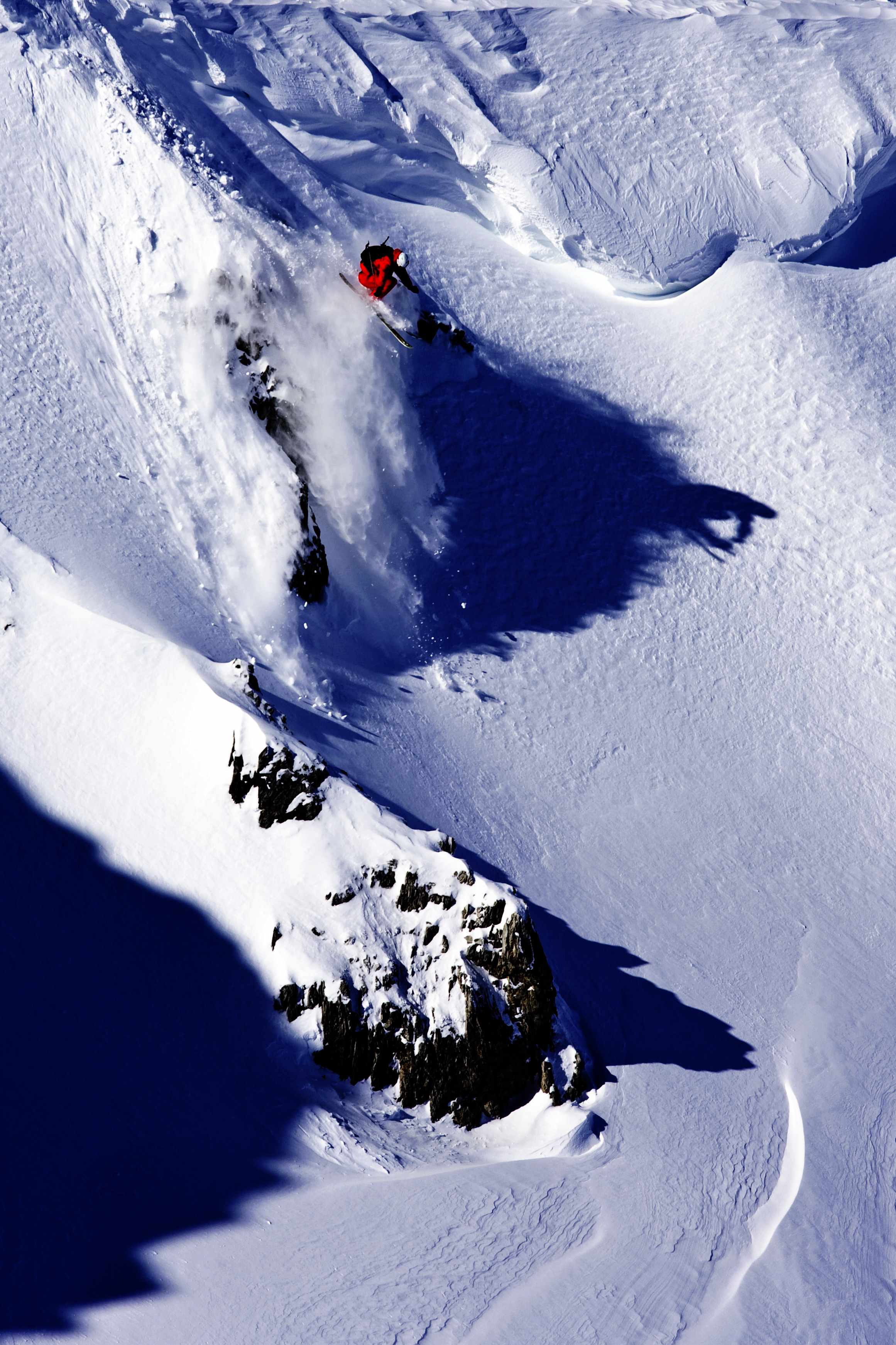 Matthias Mayr in Action